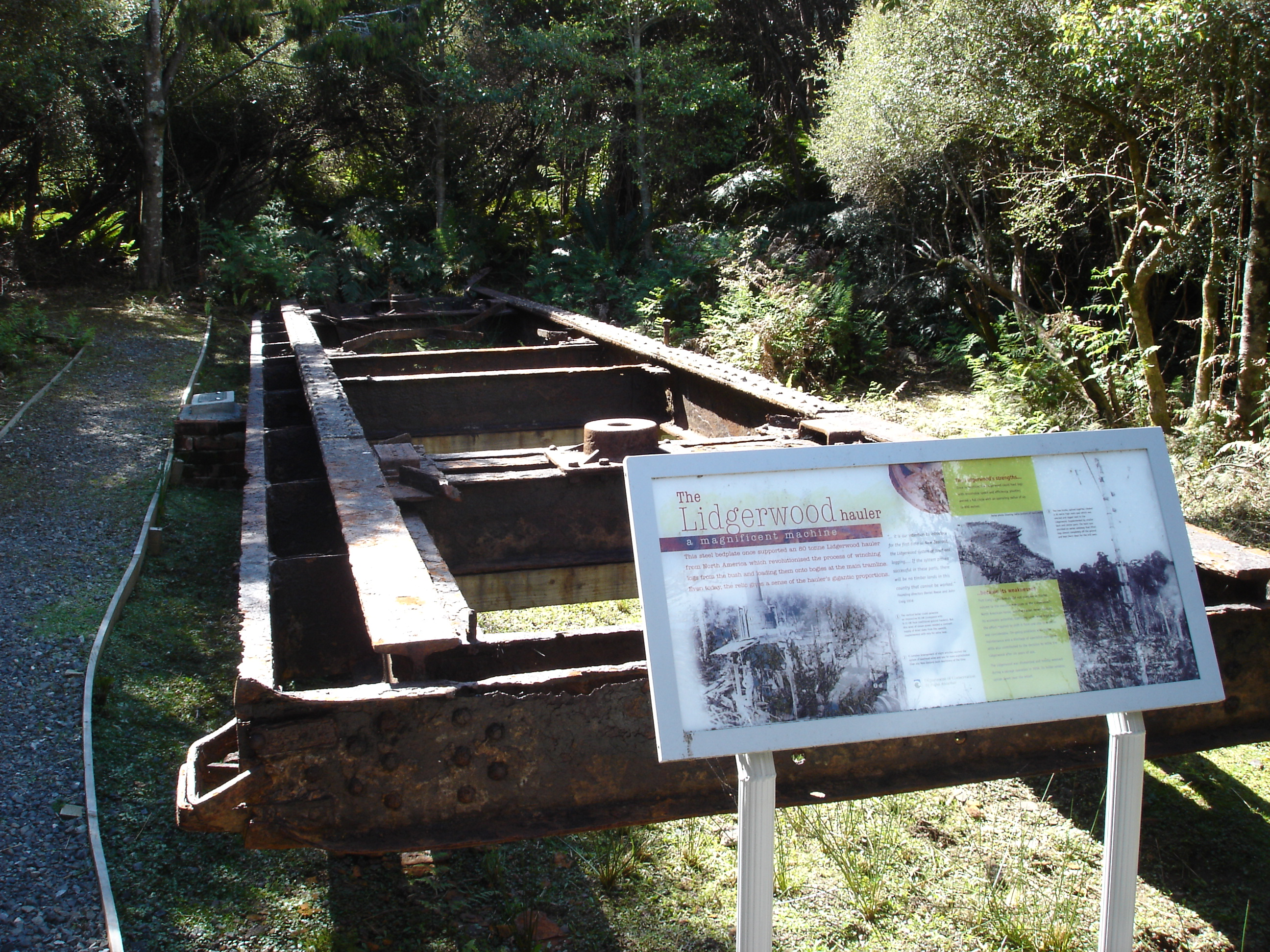 I took this photo. Will get more info later.